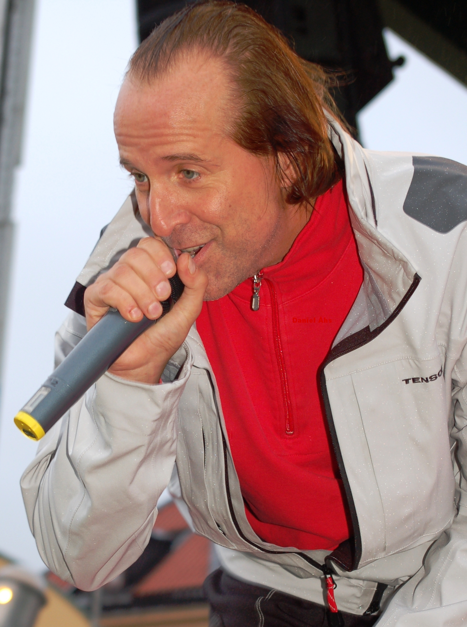 Peter Stormare at Gröna Lund